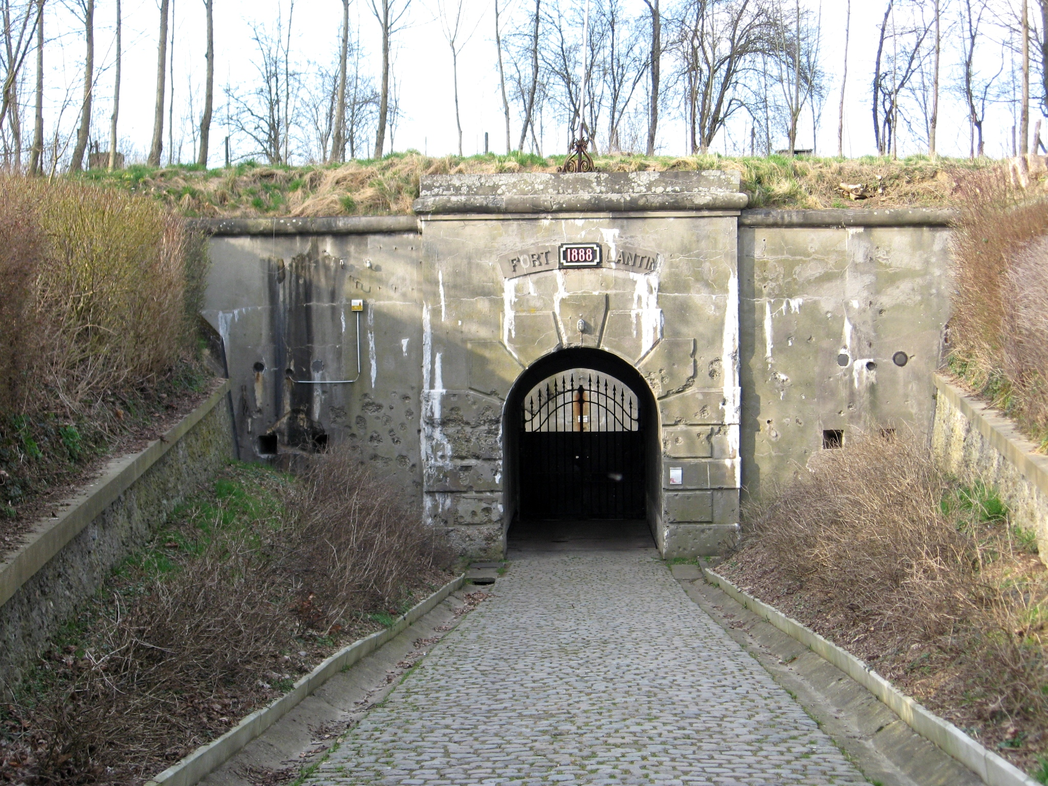 Entrance of the Fort Lantin, Lantin, Juprelle, Liège, Belgium